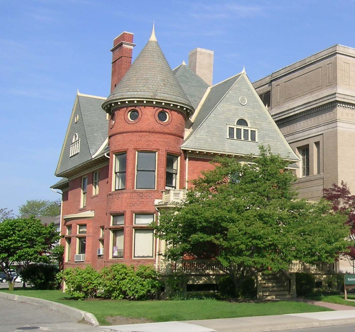 Mackenzie House on Cass Avenue — in Detroit, Michigan. A Contributing property to and within the Wayne State University Buildings Historic District. The house is a Registered Michigan State Historic Site.